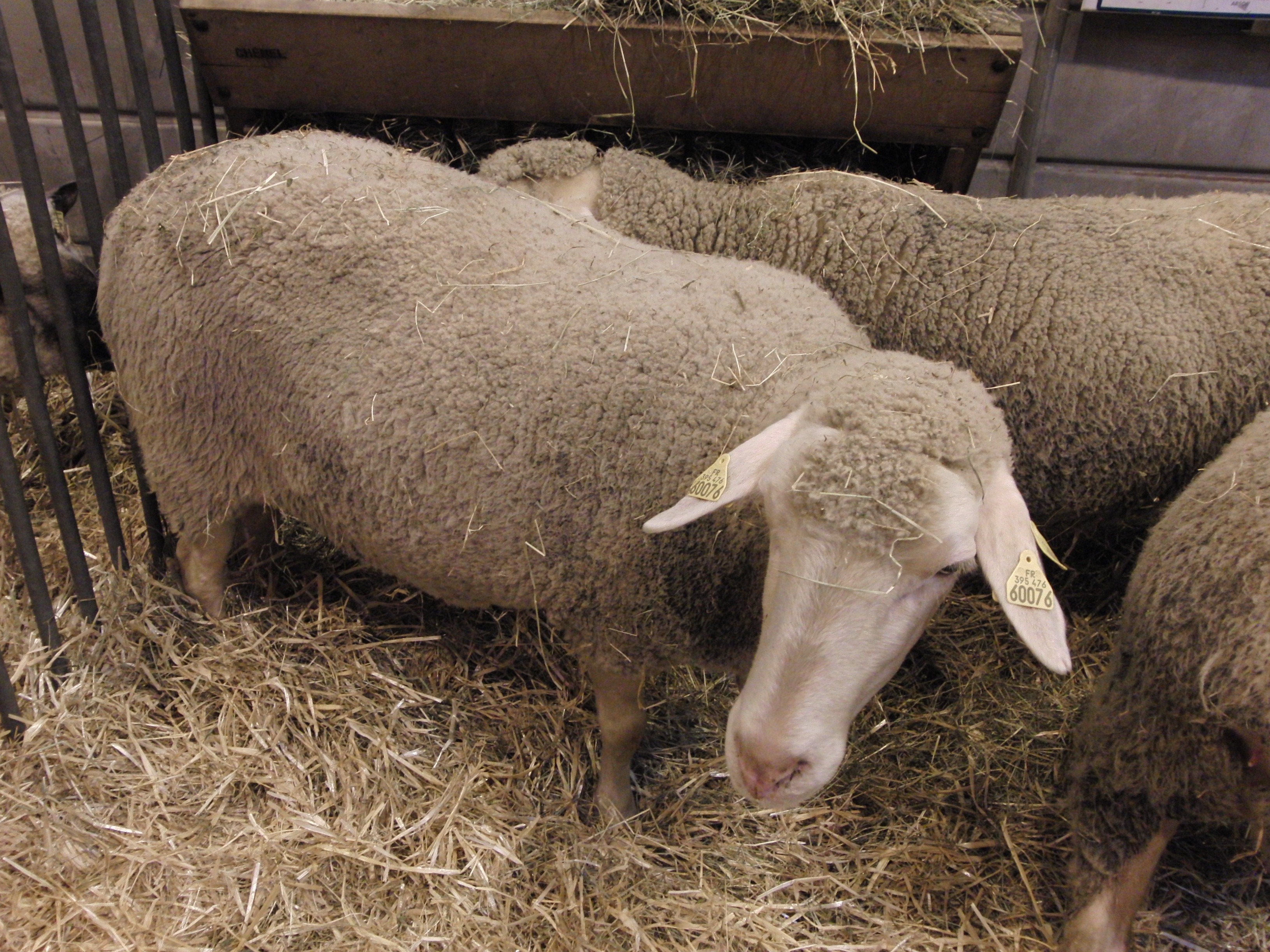 Est à laine Mérinos sheep - Salon international de l'agriculture 2011, Paris, France